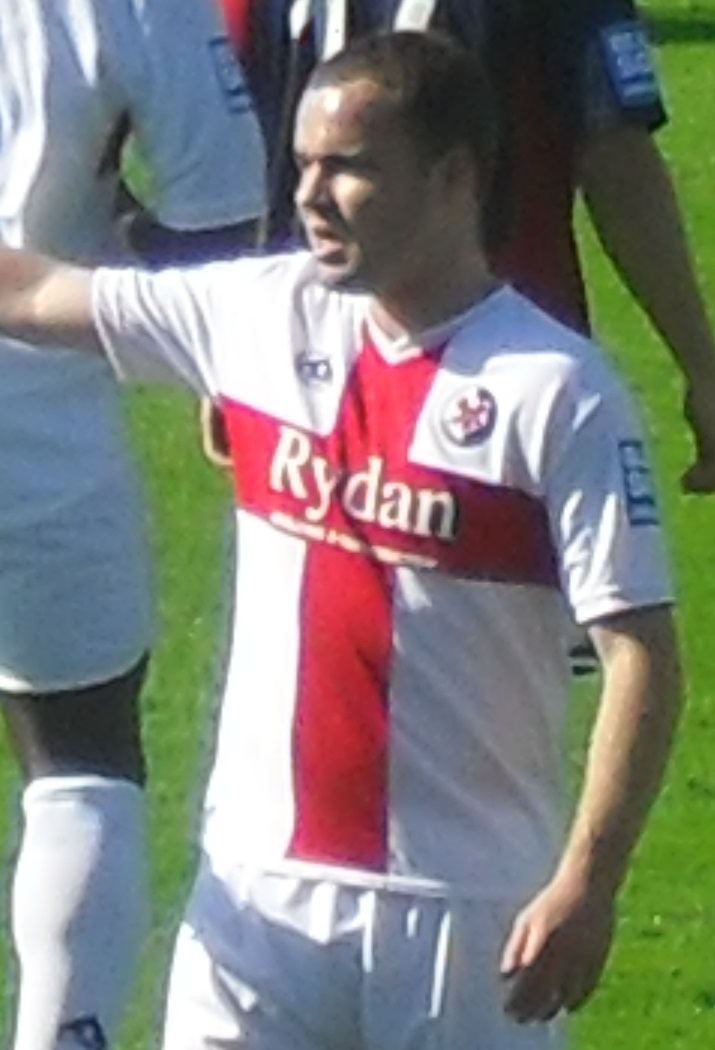 Lee Fowler.